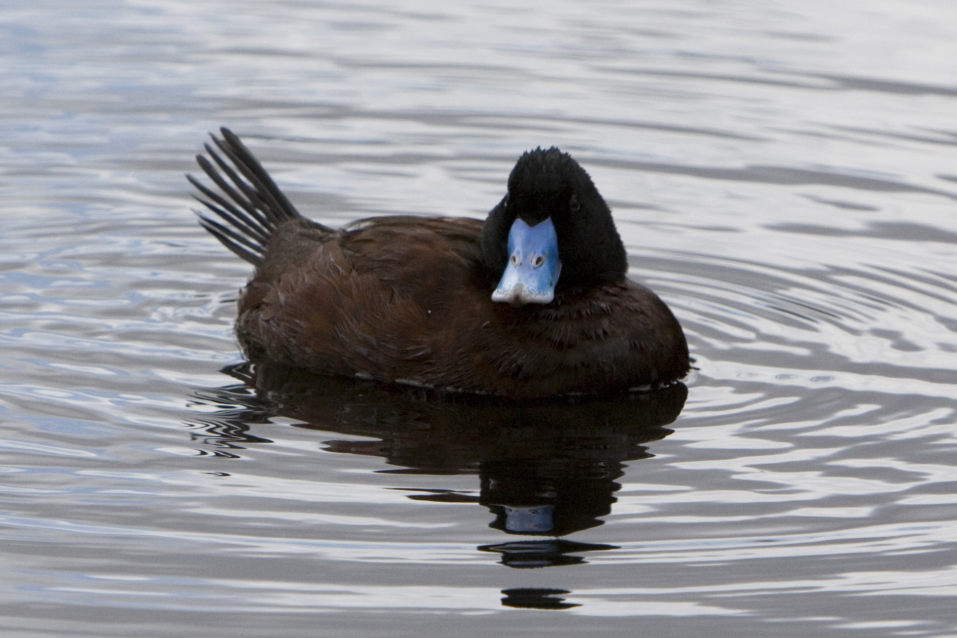 Blue-billed Duck (Oxyura australis) taken at Lake Monger, Western Australia.